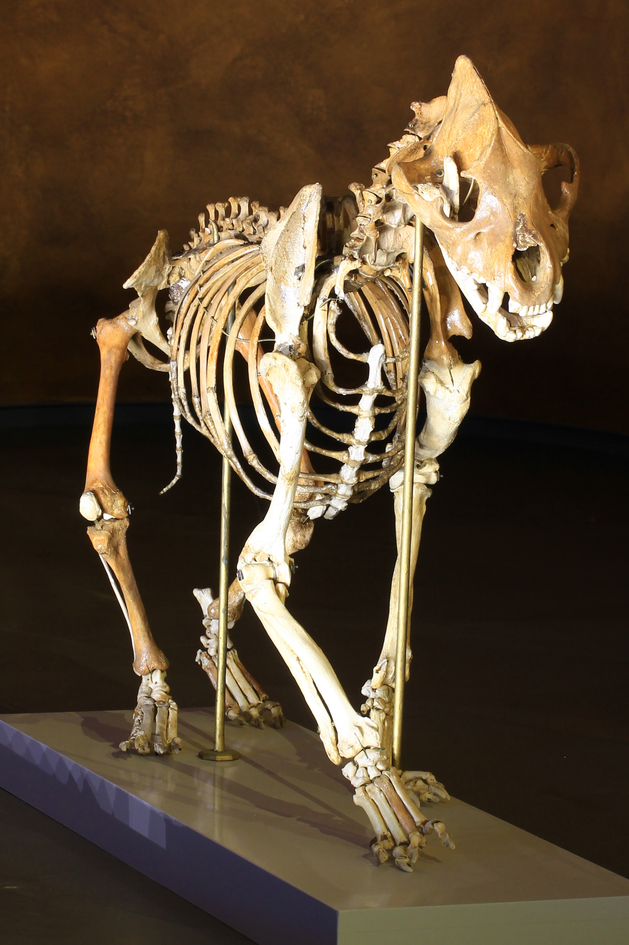 Cave hyena (Crocuta crocuta spelaea), 1.8/0.01 million year B.C., Aventigan, Hautes-Pyrénées, France Muséum de Toulouse Native nameMuséum de ToulouseLocationToulouse, FranceCoordinates43° 35′ 37.89″ N, 1° 26′ 57.42″ E Established1796: established ; 1865: opened to publicWeb page control : Q422 VIAF: 130895847 ISNI: 0000 0001 2158 3469 SUDOC: 028667107 BNF: 120455376 Museofile: M7013 institution QS:P195,Q422